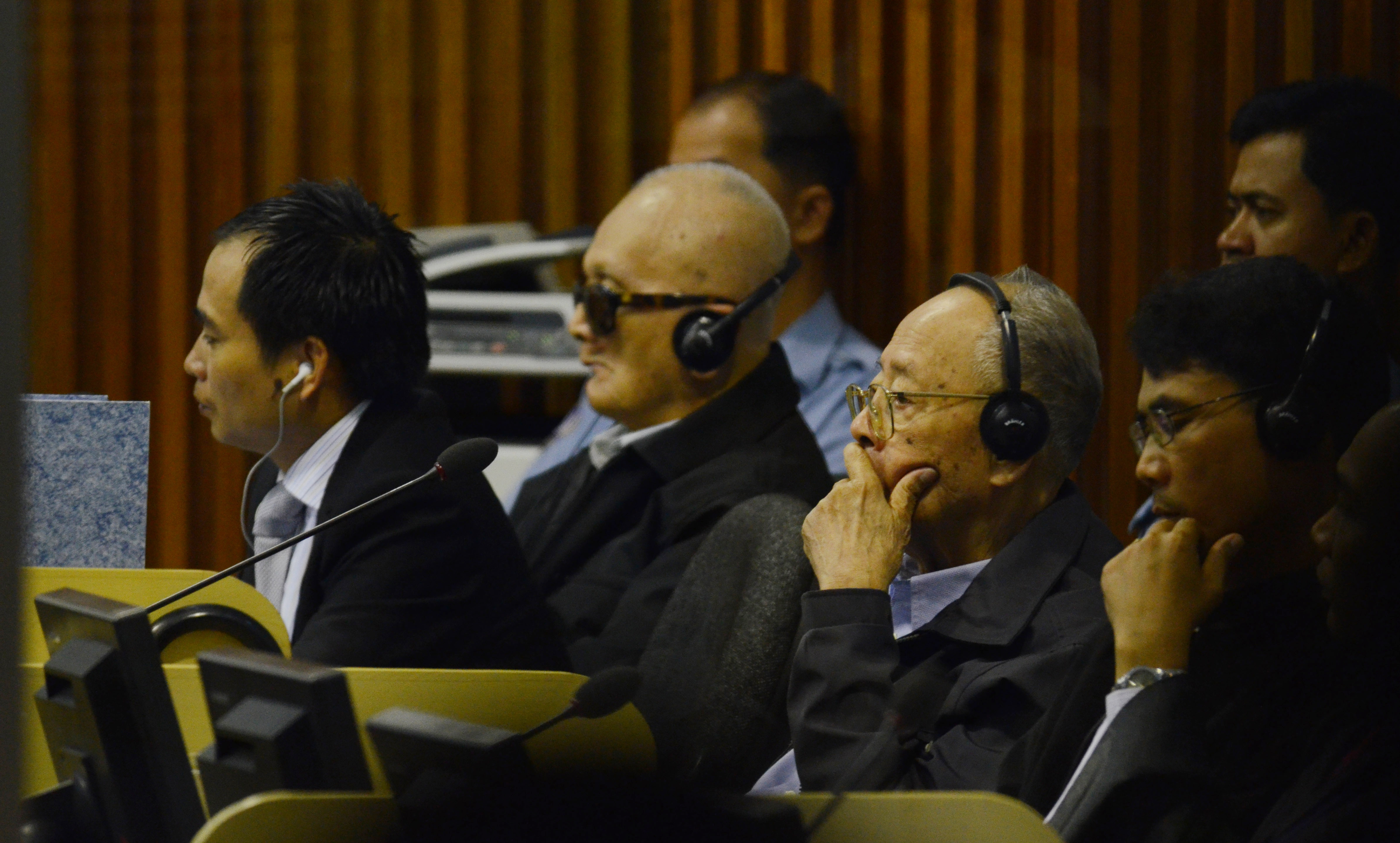 31 Aug 2011:Nuon Chea and Ieng Sary during the third day of Trial Chamber's preliminary hearing on fitness to stand trial. ... ថ្ងៃទី៣១ ខែសីហា ឆ្នាំ២០១១: លោក នួន ជា និង លោក អៀង សារី នៅក្នុងថ្ងៃទីបីនៃសវនាការលើកាយសម្បទា នៅចំពោះមុខអង្គជំនុំជម្រះសាលាដំបូង។